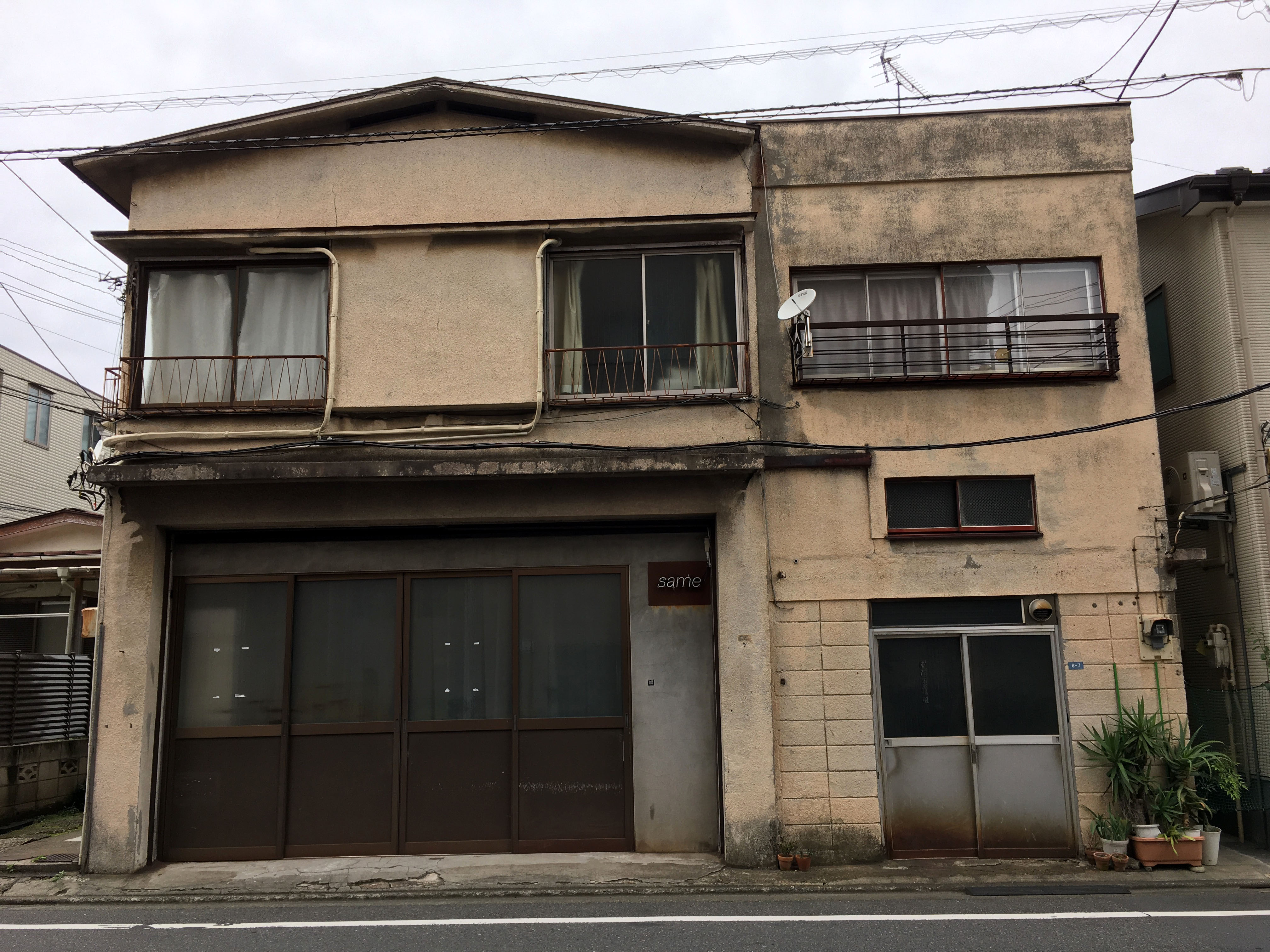 same gallery (art gallery in Tokyo, Japan)